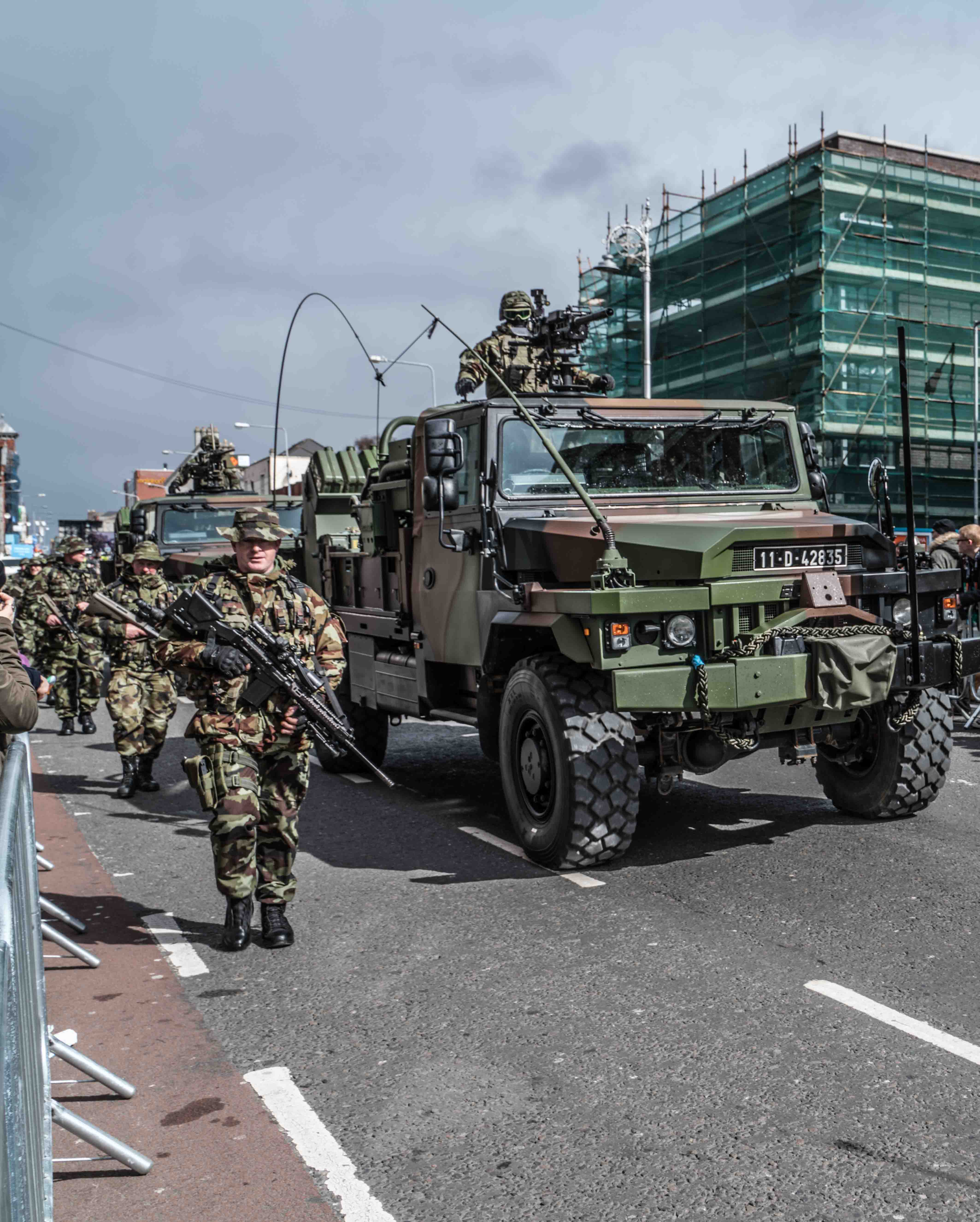 Irish Army Ranger Wing (ARW) ACMAT VLRA